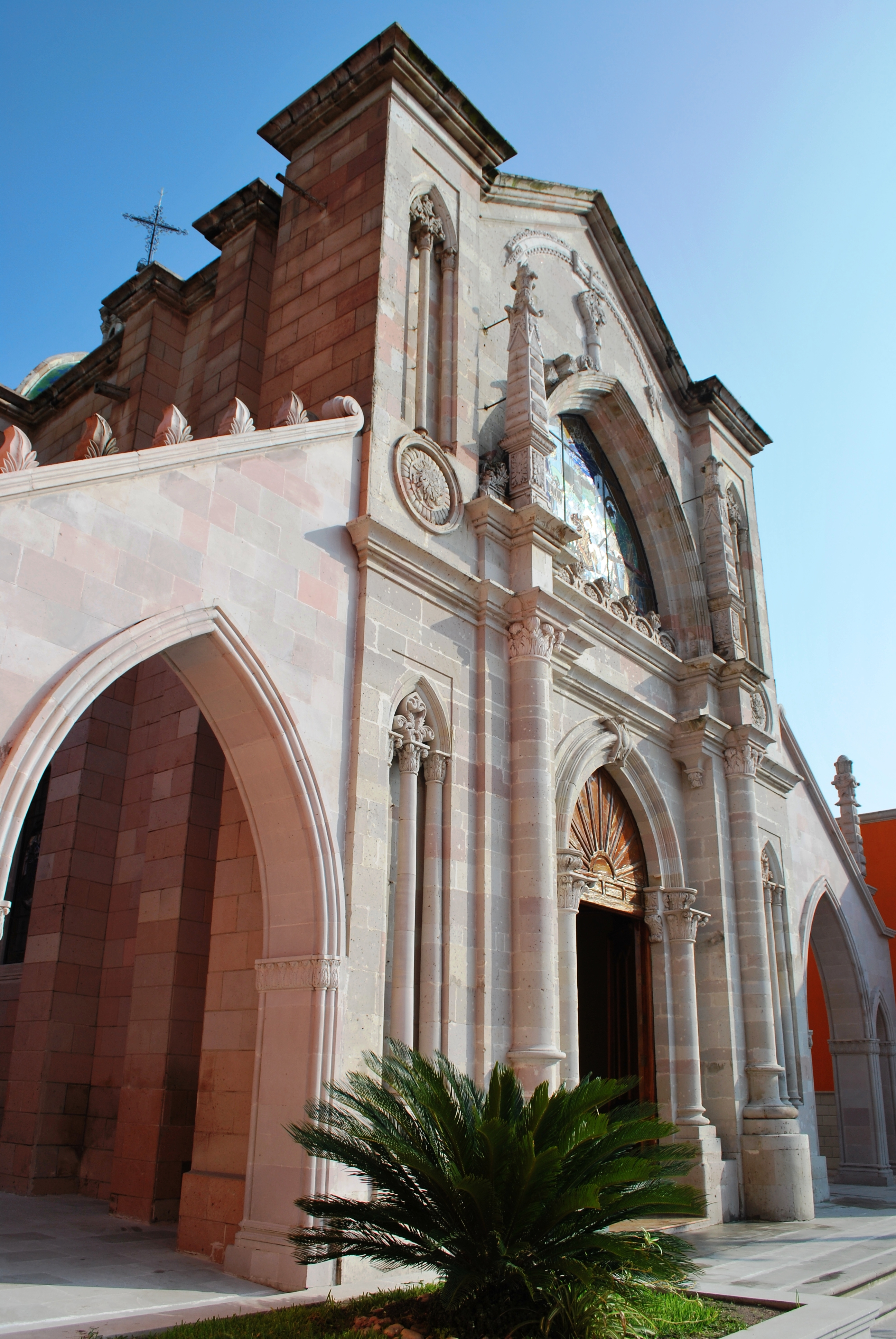 Temple of Sagrada Familia in San Juan de los Lagos, Mexico